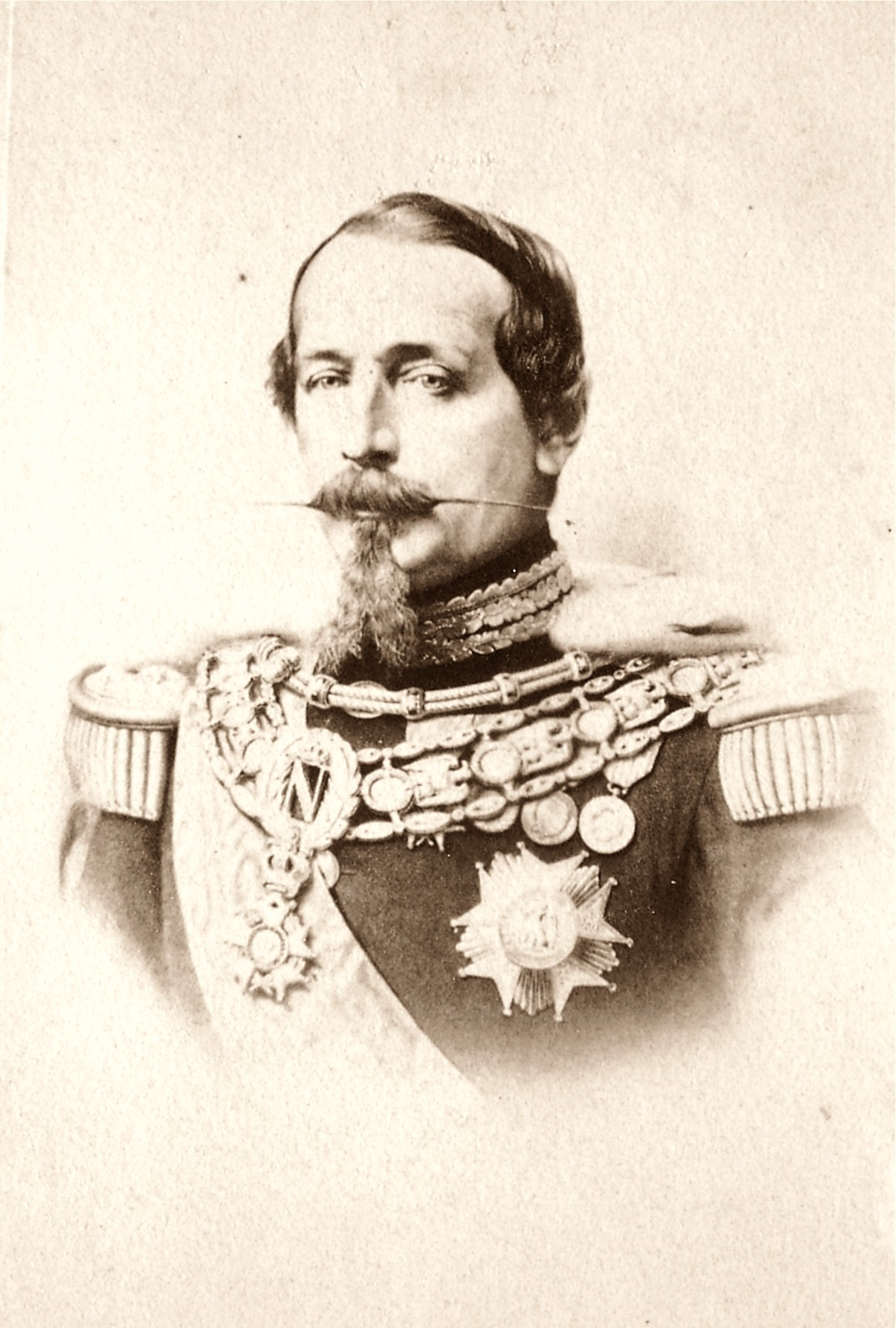 Napoleon III of France, Charles-Louis Napoleon Bonaparte